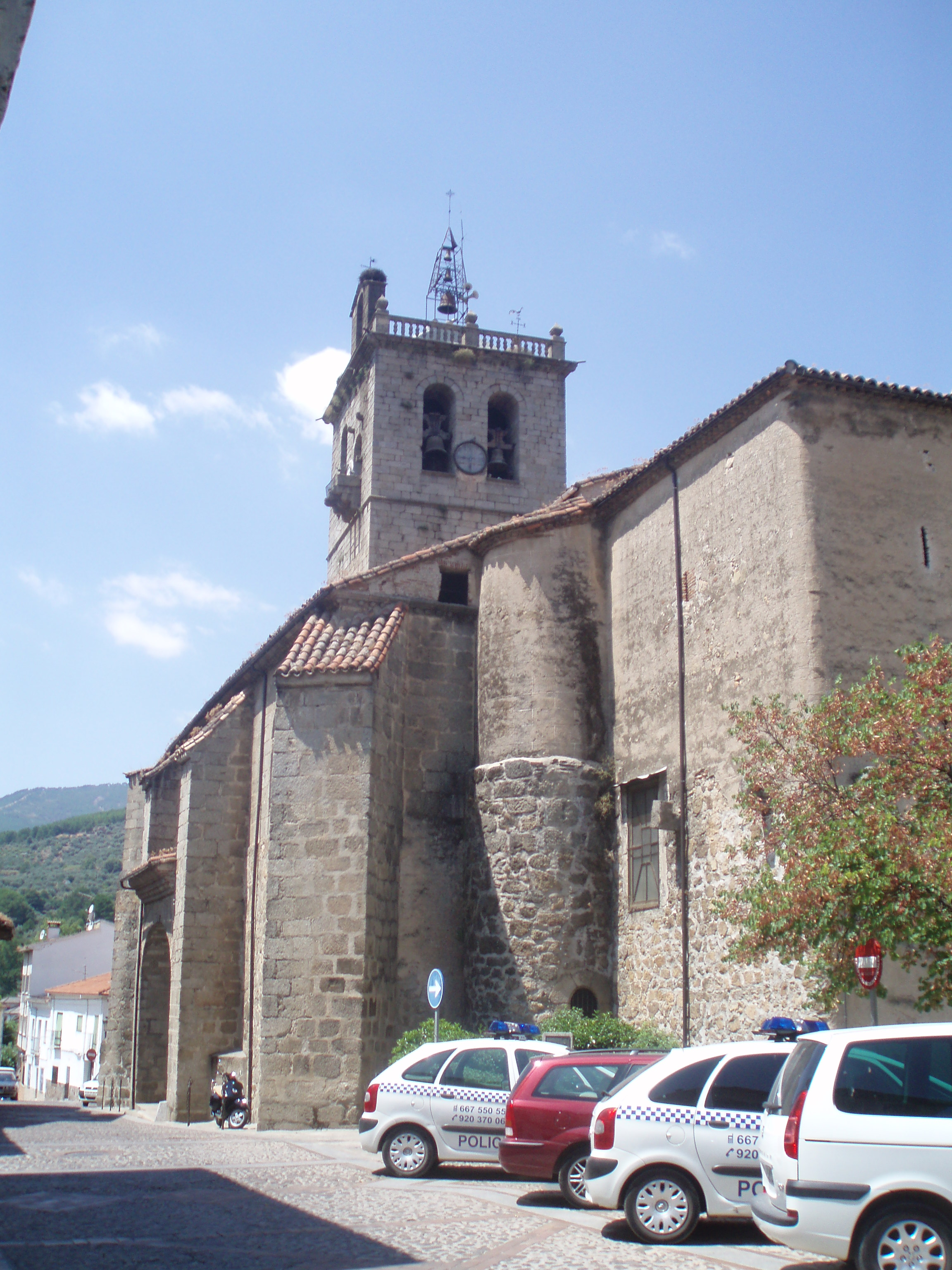 Church of Arenas de San Pedro, in the province of Ávila. (Spain).